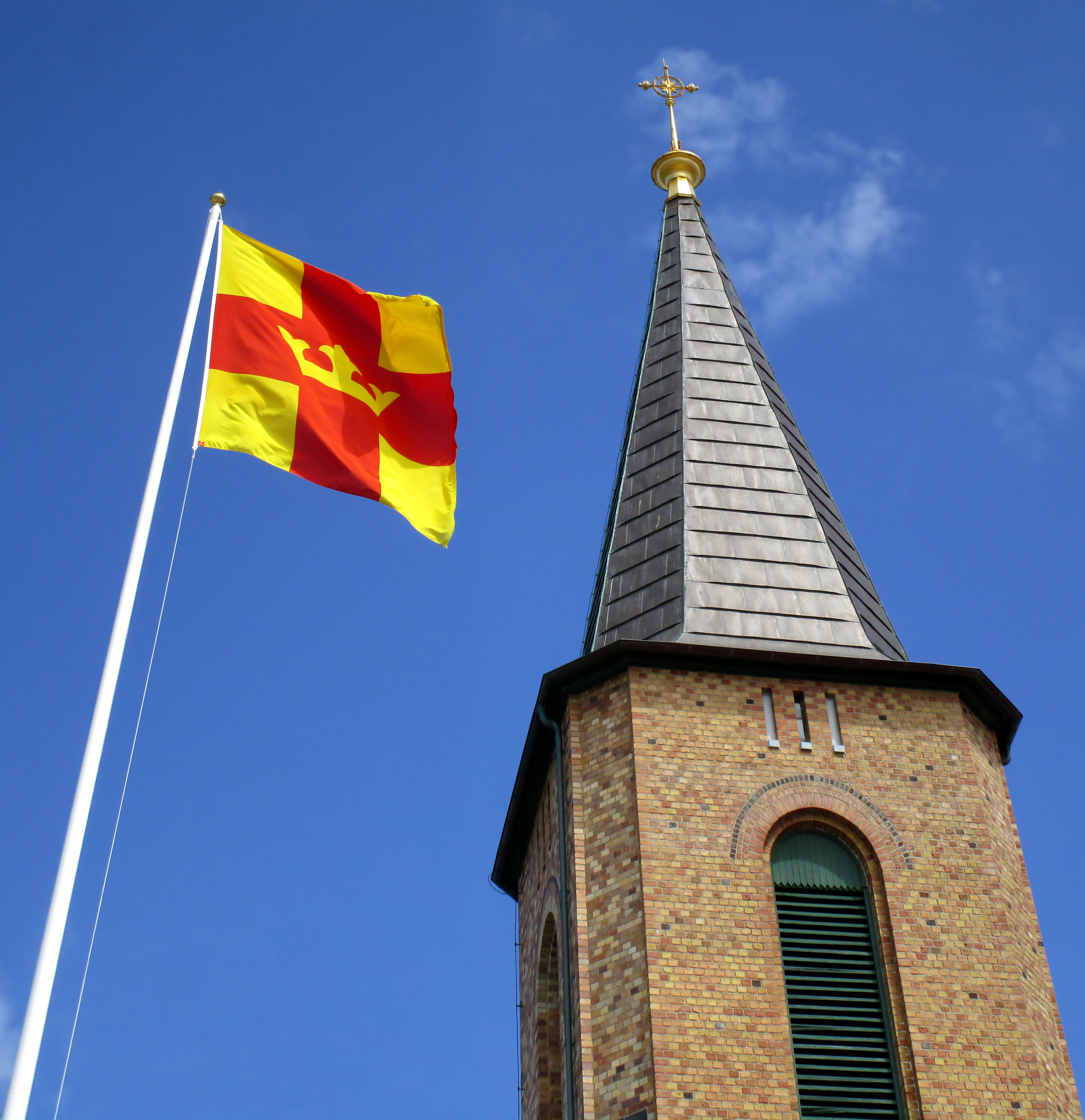 Flag of Church of Sweden next to the Tower of Smögen Church, Sweden.